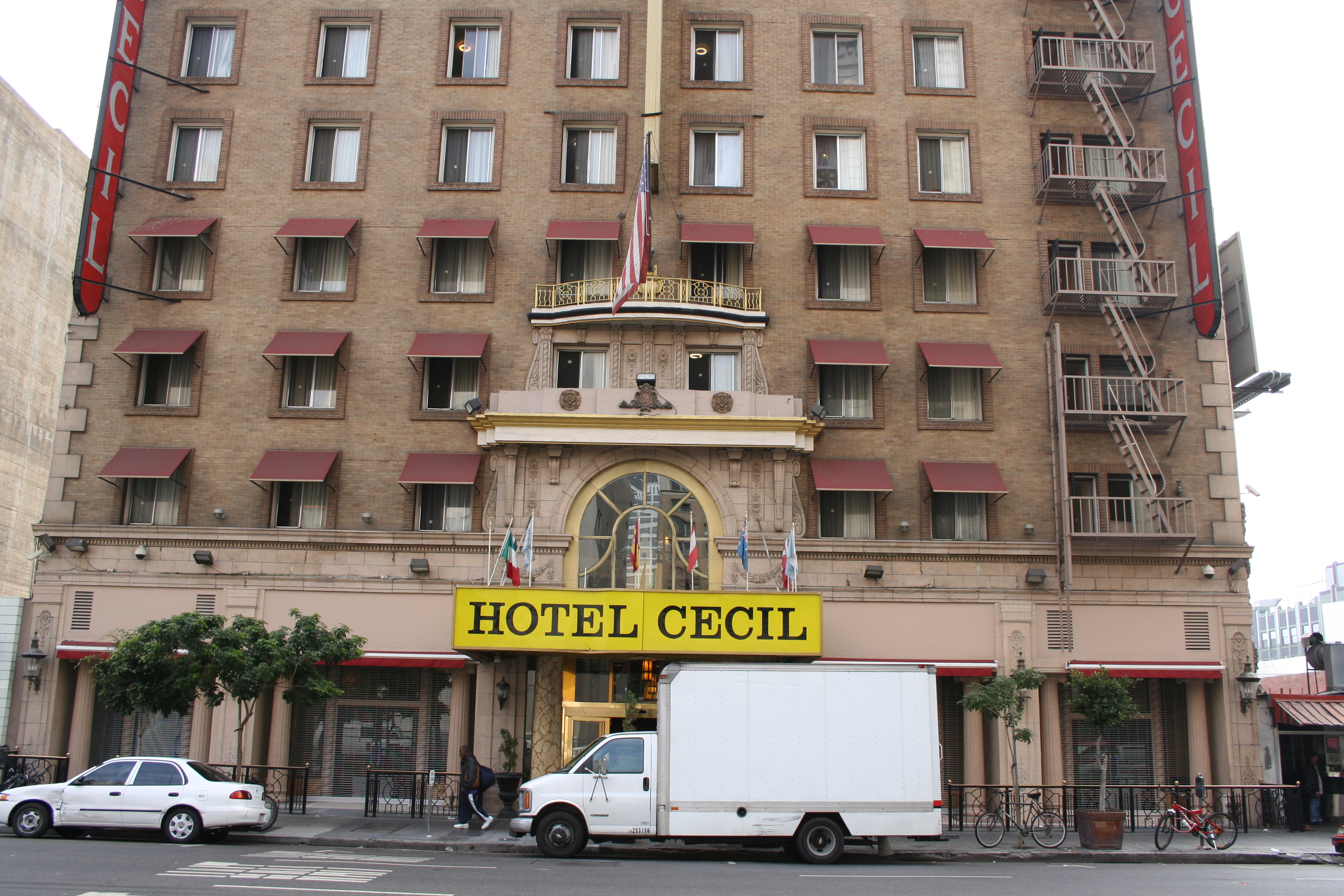 Cecil Hotel, 640 S. Main Street, Los Angeles, CA 90014.